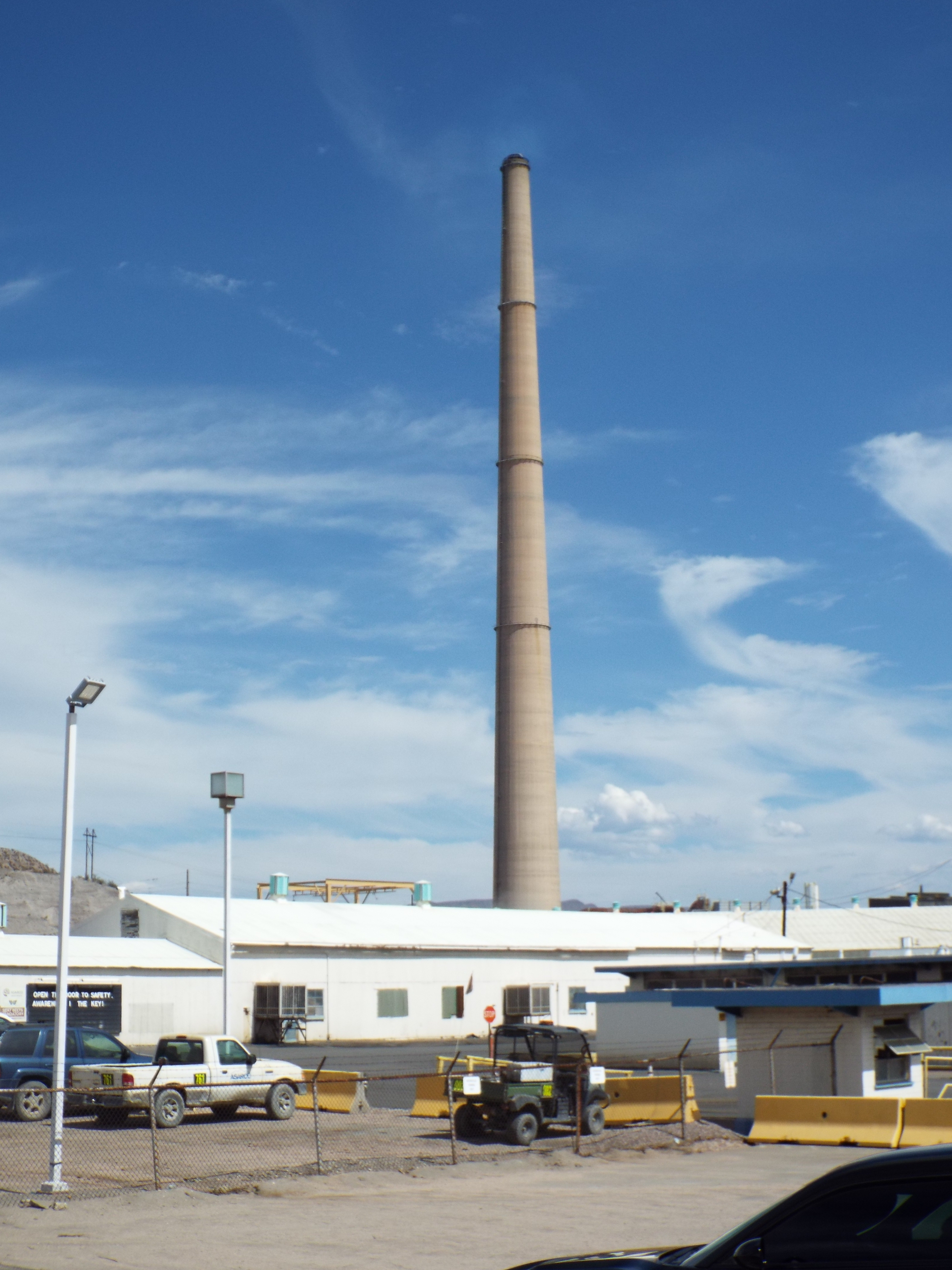 The 1,000' tall Hayden Smelter in Hayden, Arizona